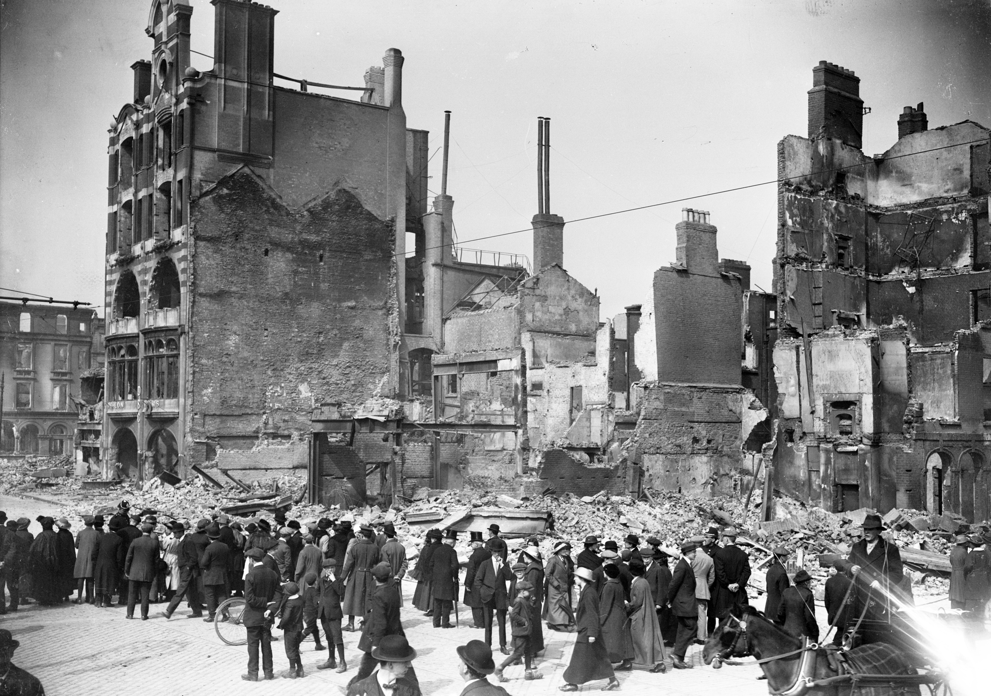 The remains of the Dublin Bread Company at 6-7 Lower Sackville Street (now O'Connell Street) after the Easter Rising in 1916. Date: Definitely May 1916, if not the very end of April NLI Ref.: KE 115